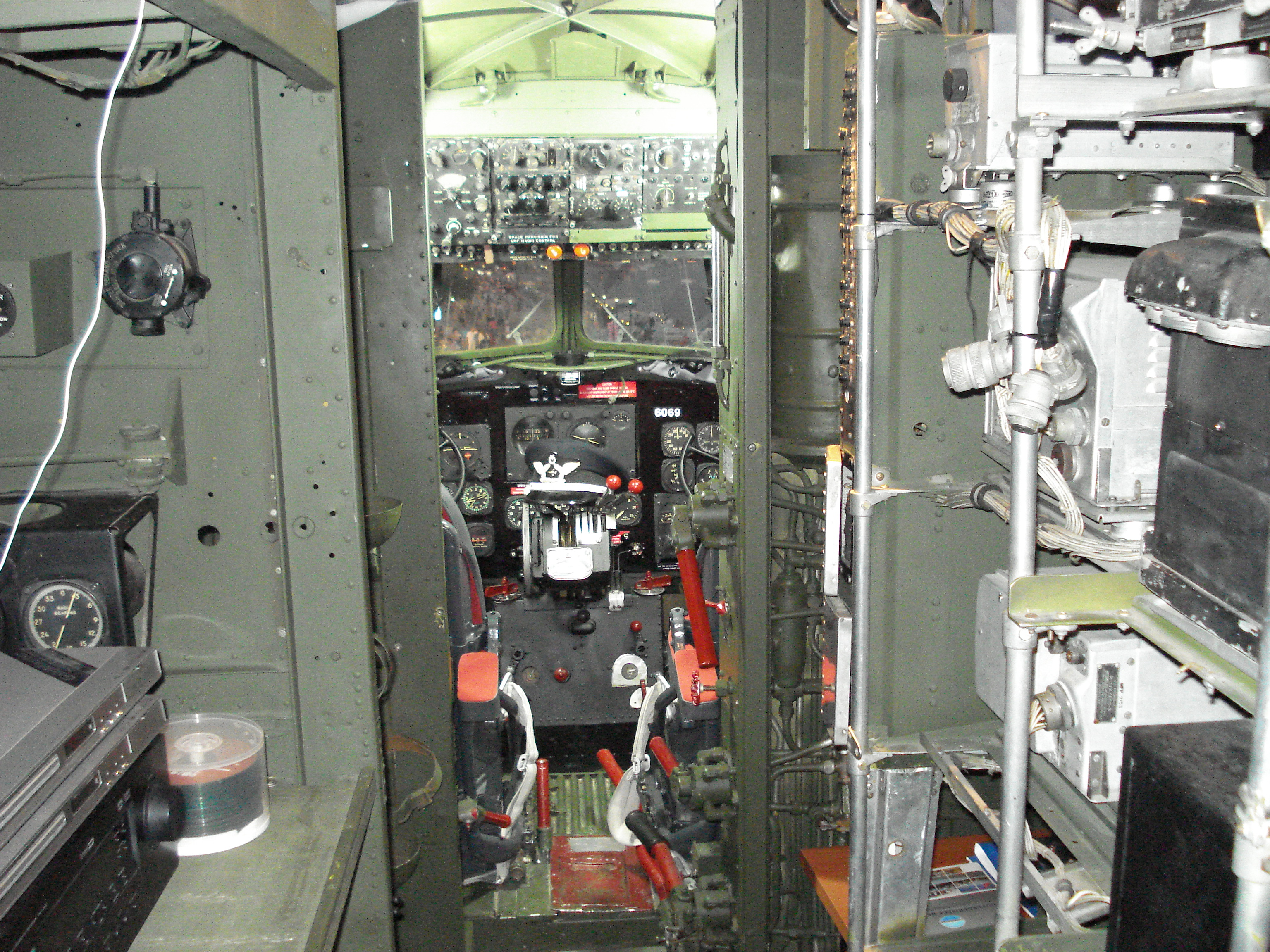 Cockpit of a DC-3